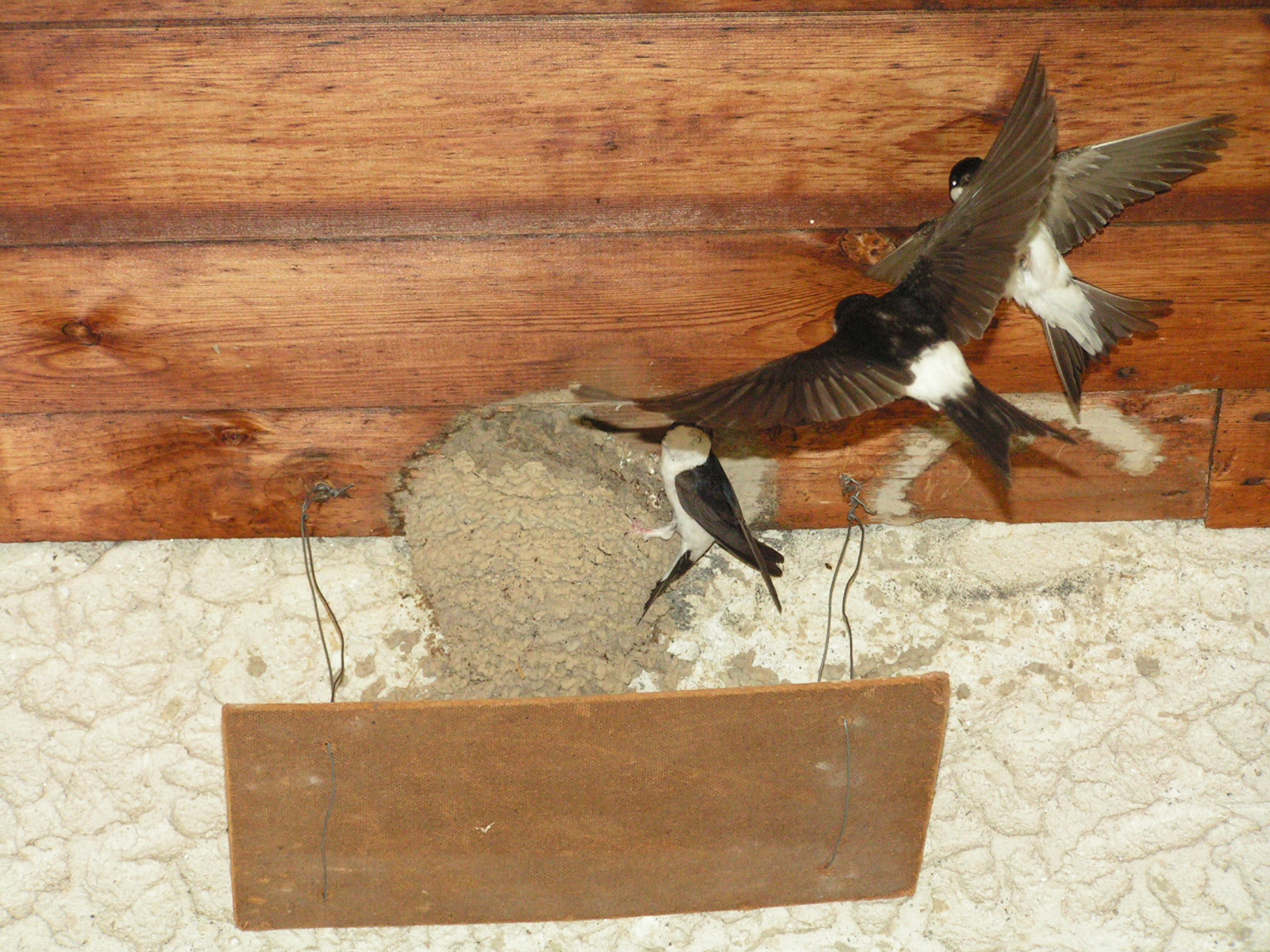 House Martin (Delichon urbicum), Chonkovce, Slovakia.